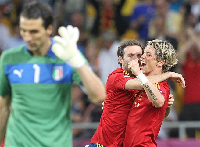 Juan Mata e Fernando Torres goal celebrationi at Euro 2012 final Spain-Italy